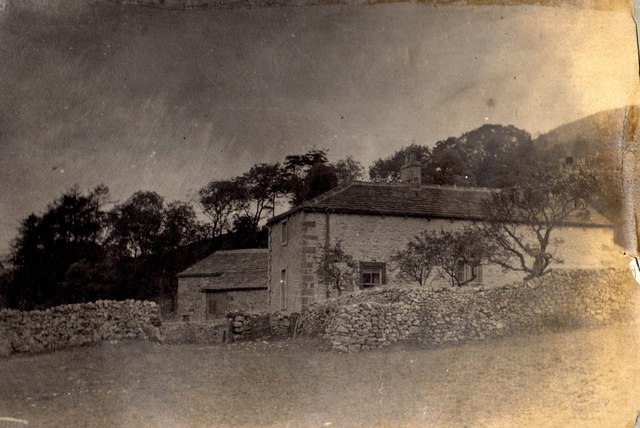 Scargill House, Near Kettlewell, photo ca. 1901